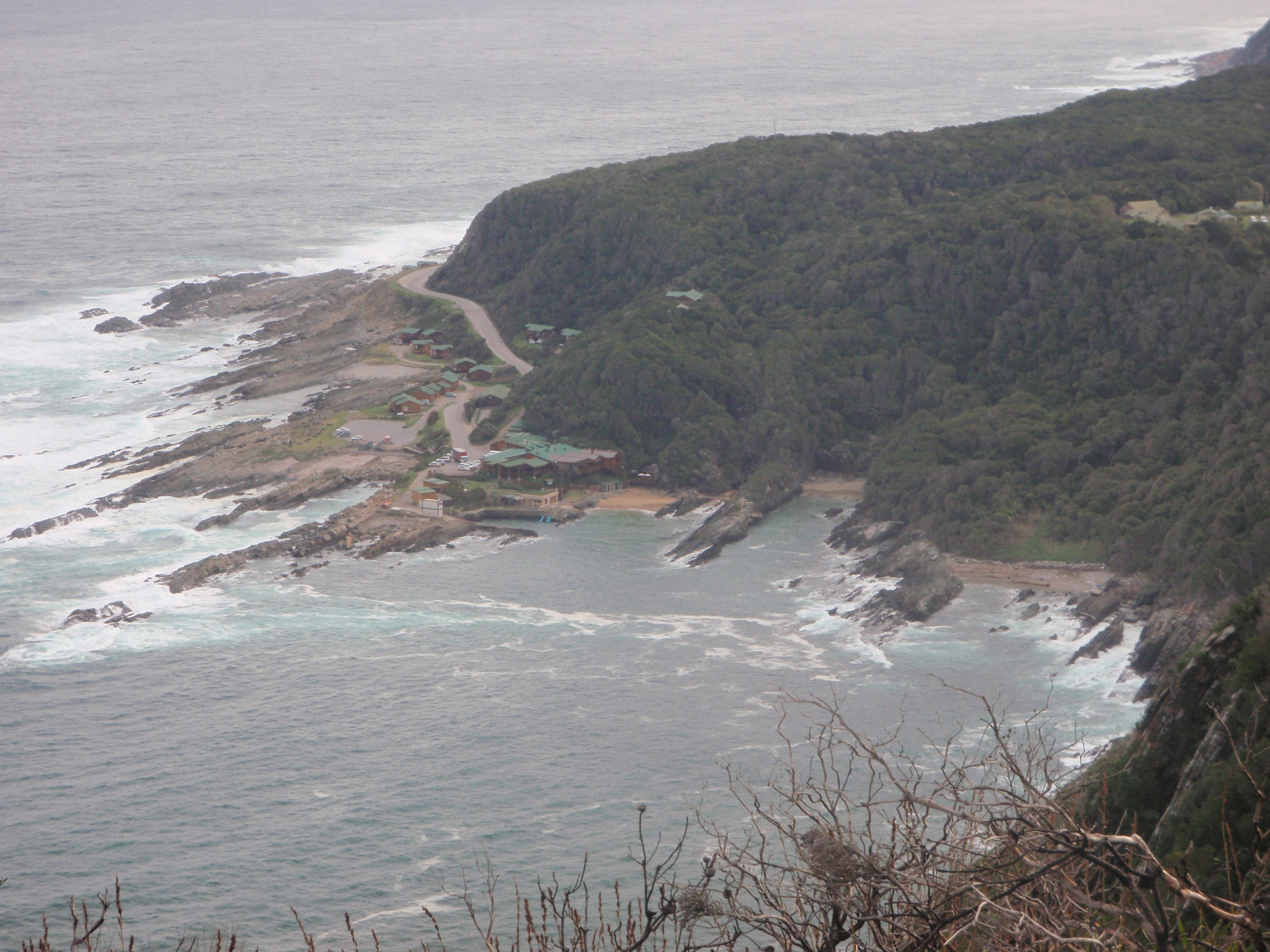 View of thge dive site at Storms River Mouth. The dive site at Storms River Mouth is the small inlet in the middle just below the restuarant, Storms River Mouth.